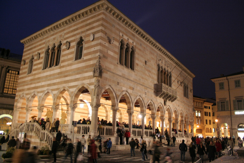 Description: City hall in Udine, Friuli Venezia Giulia, Italy. Source: / Date: 25th February 2006 Author: Ekočlen (uploader Tcie) License: CreativeCommons Attribution-ShareAlike 2.5 Other versions of this file: /